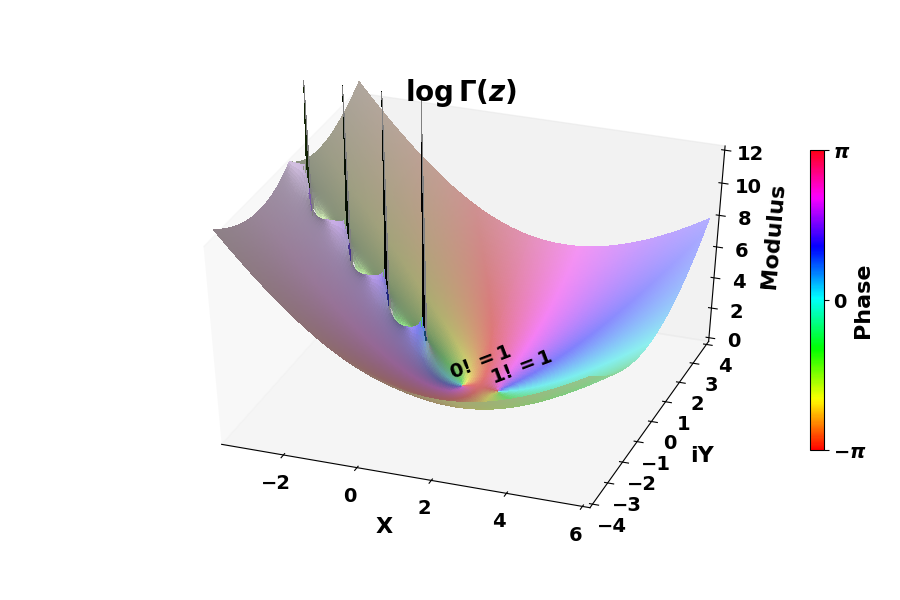 Logarithmic Gamma Function Modulus and Phase; the analytic log-Gamma function $\log\Gamma(z)$.